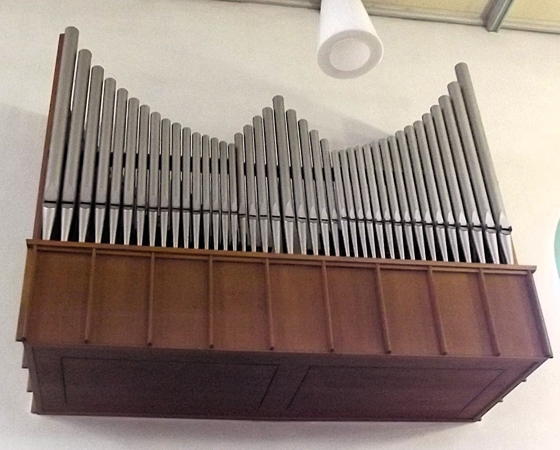 Interior of the roman catholic church in Niederlosheim, Saarland